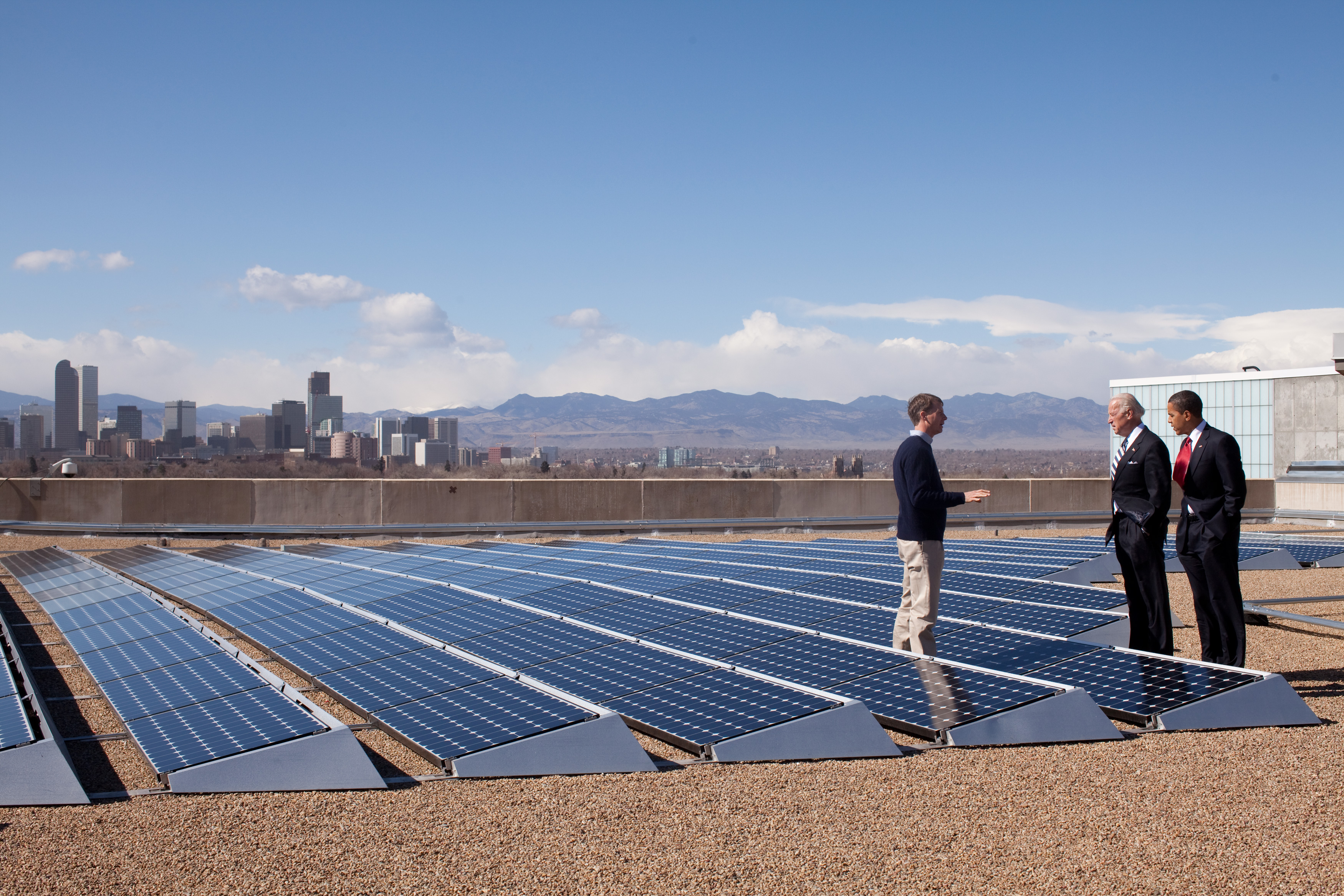 President Barack Obama with Vice President Joe Biden speaks with CEO of Namaste Solar Electric, Inc., Blake Jones, while looking at solar panels at the Denver Museum of Nature and Science in Denver, Col., Feb. 17, 2009. (Official White House Photo by Pete Souza)